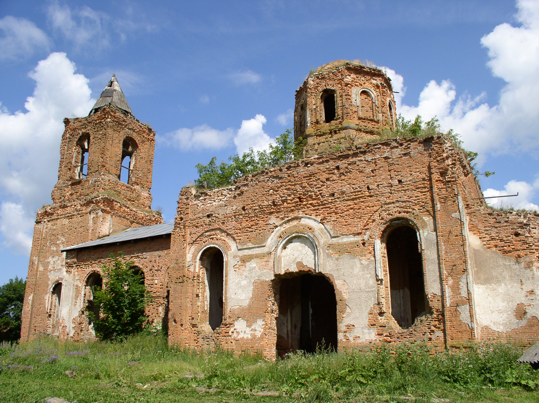 Church of Saint Alex, Smalyany, Belarus.